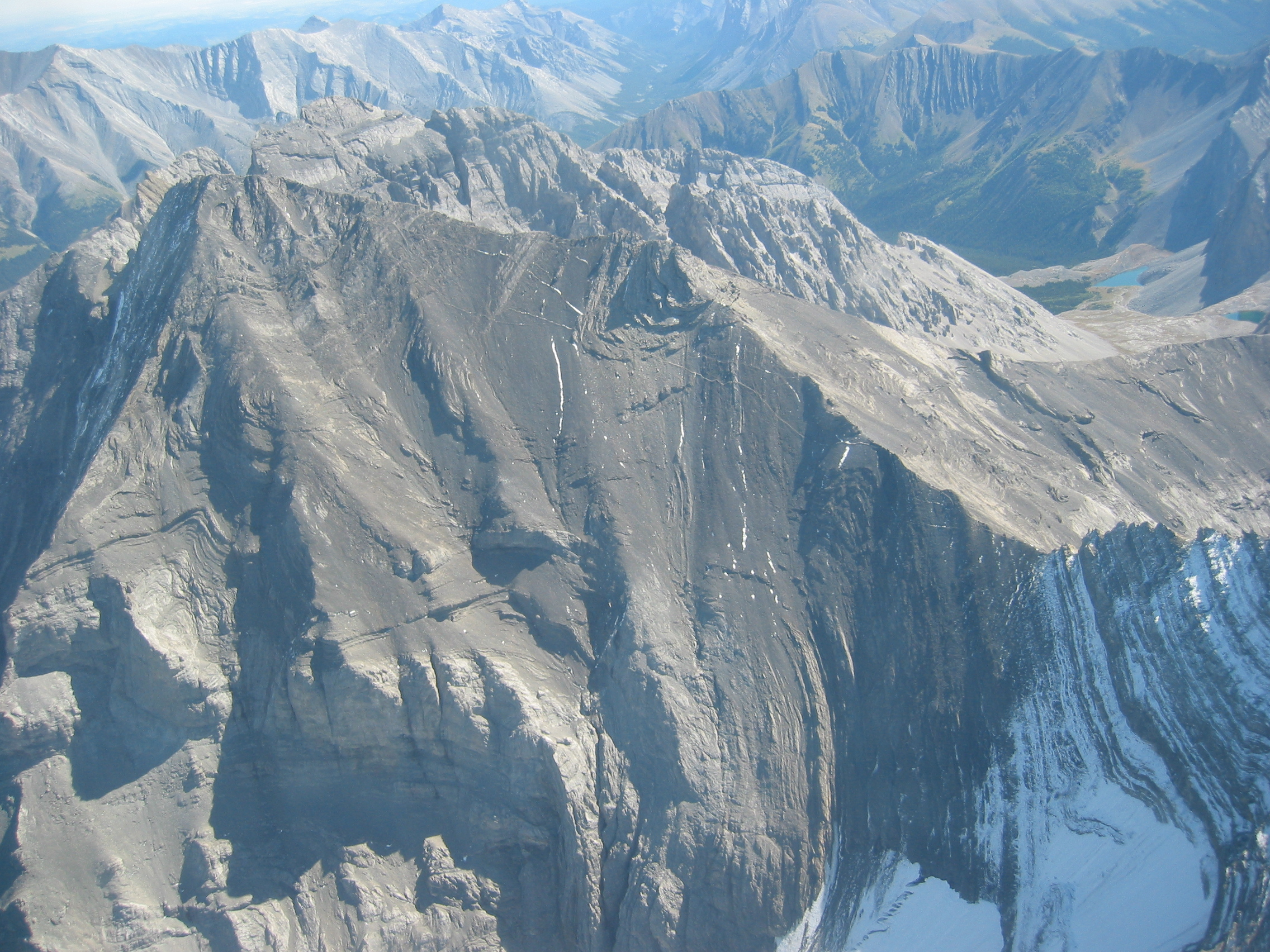 Mount Rae, Kananaskis, Alberta, Canada This photo was taken from directly over Elbow lake in the Elbow pass (looking south-east-ish). The scramble up to the summit is via the Ptarmigan cirque and then up to the col. The col can be seen on the right about half way up the image. It is reached from the other side by a trail leading up from the back of the Ptarmigan cirque. The Ptarmigan cirque is accessed from the Highwood pass parking lot on HWY 40. A small remnant of a glacier is visible in the bottom right. The scramble proceeds from the col to the summit in the top left via a variety of routes which can be seen in the high resolution version of this photo.